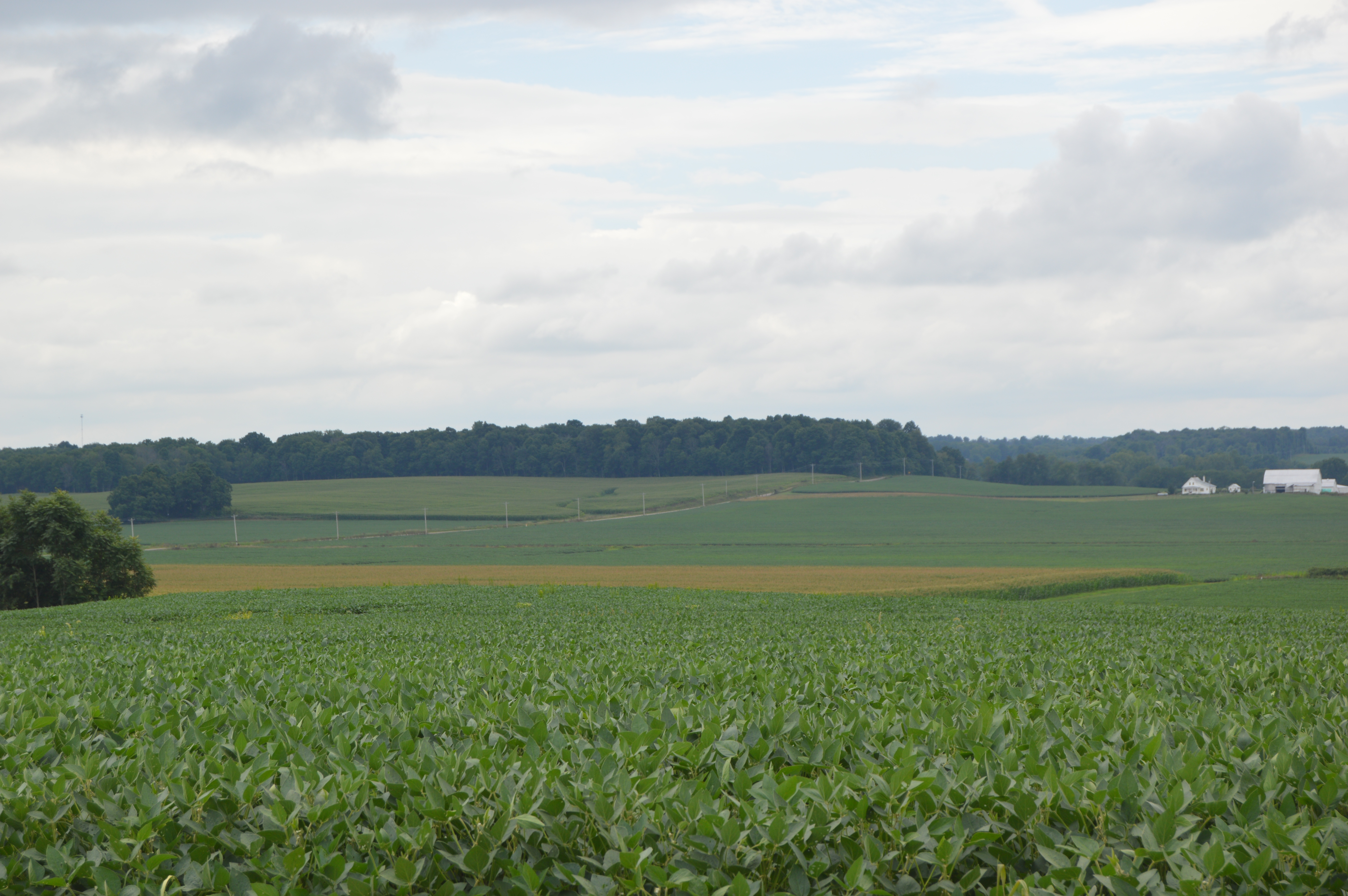 Looking south from Sycamore Road over soybean fields in far northern Clay Township, Knox County, Ohio, United States. In the distance, a utility line marks the route of Grove Church Road.